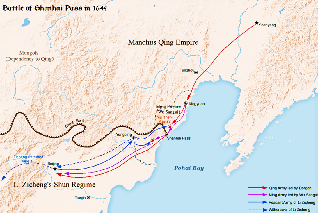 Battle of Shanhai Pass (Shanhaiguan, Yipianshi) in 1644